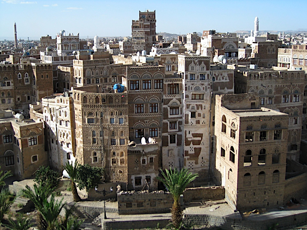 The old town of Sana'a.